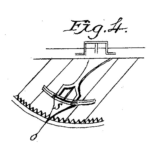 Patent USX558111 crop showing Fig 4